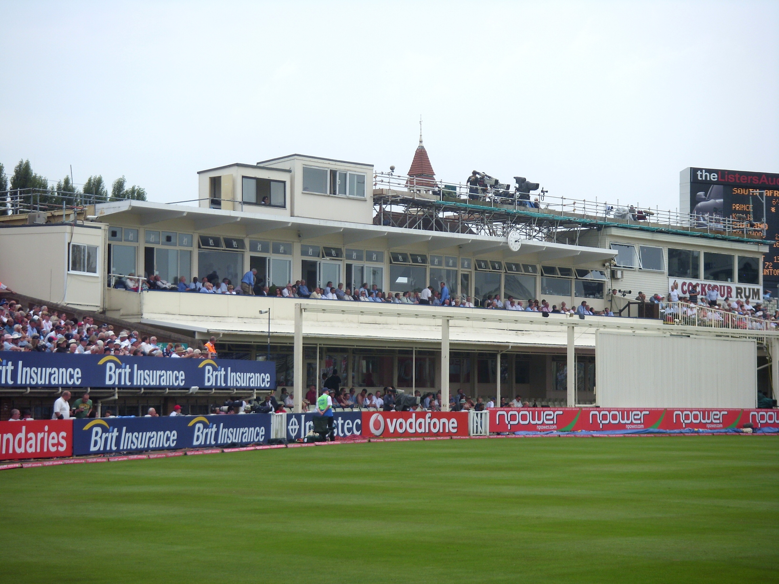 The pavlion at Edgbaston Cric ket Ground, Birmigham UK